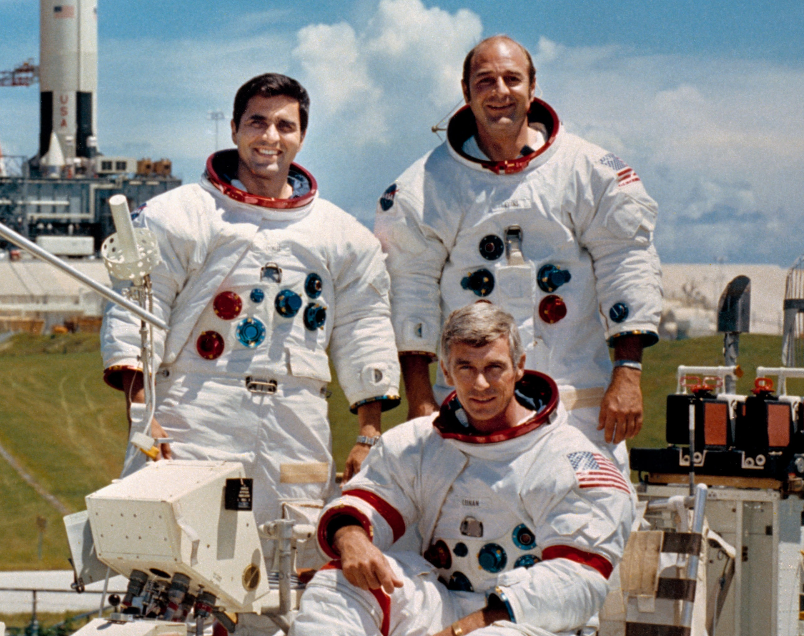 The prime crew for the Apollo 17 lunar landing mission are: Commander, Eugene A. Cernan (seated), Command Module pilot Ronald E. Evans (standing on right), and Lunar Module pilot, Harrison H. Schmitt. They are photographed with a Lunar Roving Vehicle (LRV) trainer. Cernan and Schmitt will use an LRV during their exploration of the Taurus-Littrow landing site. The Apollo 17 Saturn V Moon rocket is in the background. This picture was taken at Pad A, Launch Complex 39, Kennedy Space Center (KSC), Florida.